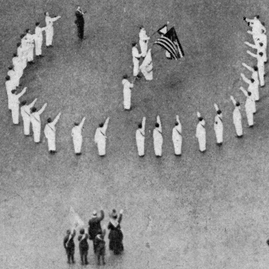 SALUTING THE FLAG. An impressive ceremony which took place in Fifth Avenue, New York, opposite the Union League Club reviewing stand during the recent "Wake Up, America" celebration. Thousands marched in the procession; hundreds of thousands lined the great thoroughfare and voiced their approval in a succession of cheers.